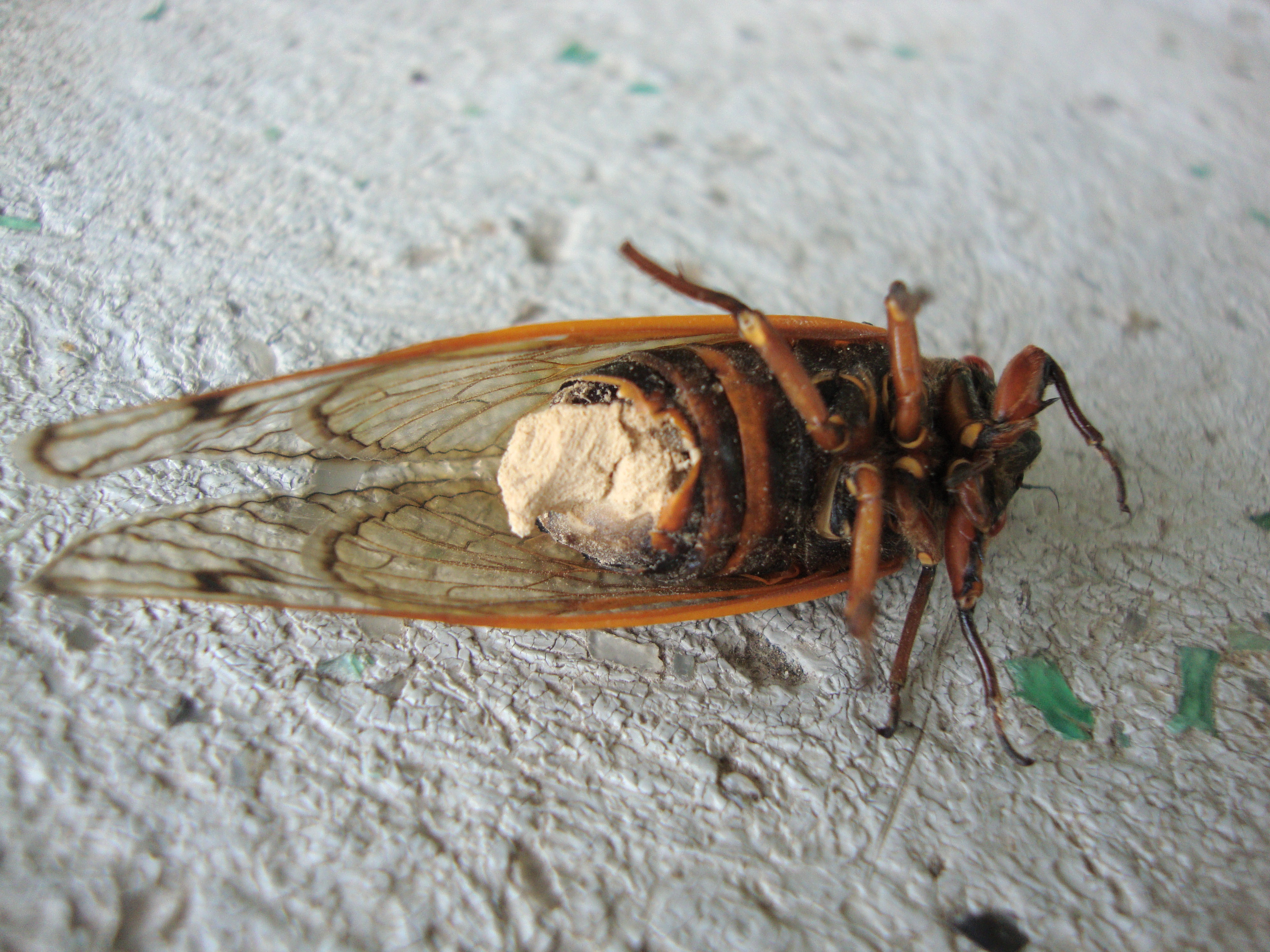 Magicicada species infected with Massospora cicadina collected in North Carolina